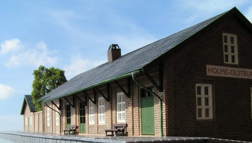 H0 scale model of Holme Olstrup station in Denmark. The plastic kit is produced by Heljan, and the model is built by Occam of MJ-blog.dk in the fall of 2006.